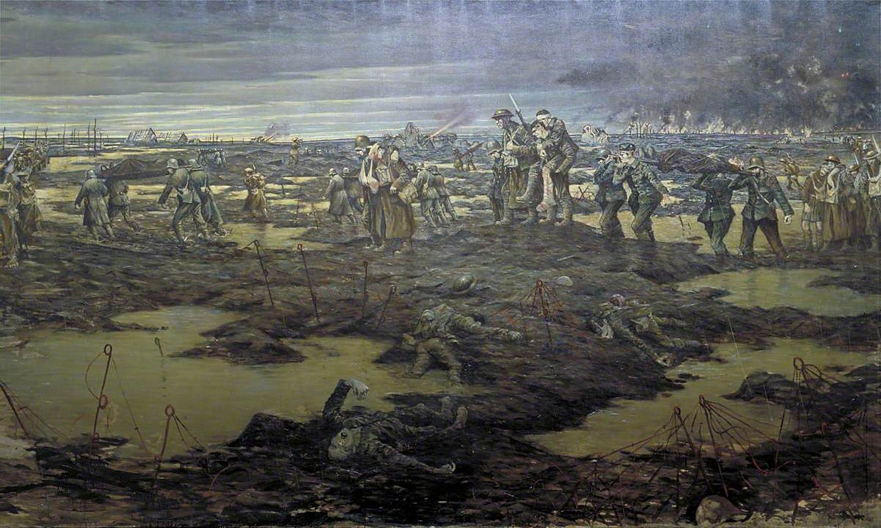 The Harvest of Battle image: The aftermath of a battle showing a muddy and flooded battlefield. A long line of wounded men, some with limbs bandaged, men carrying their comrades, straggling from right to left. Corpses lie in and around water-filled shell holes. Artillery pieces can be seen firing to the right of the composition, with a heavy pall of smoke and flames over the target area.